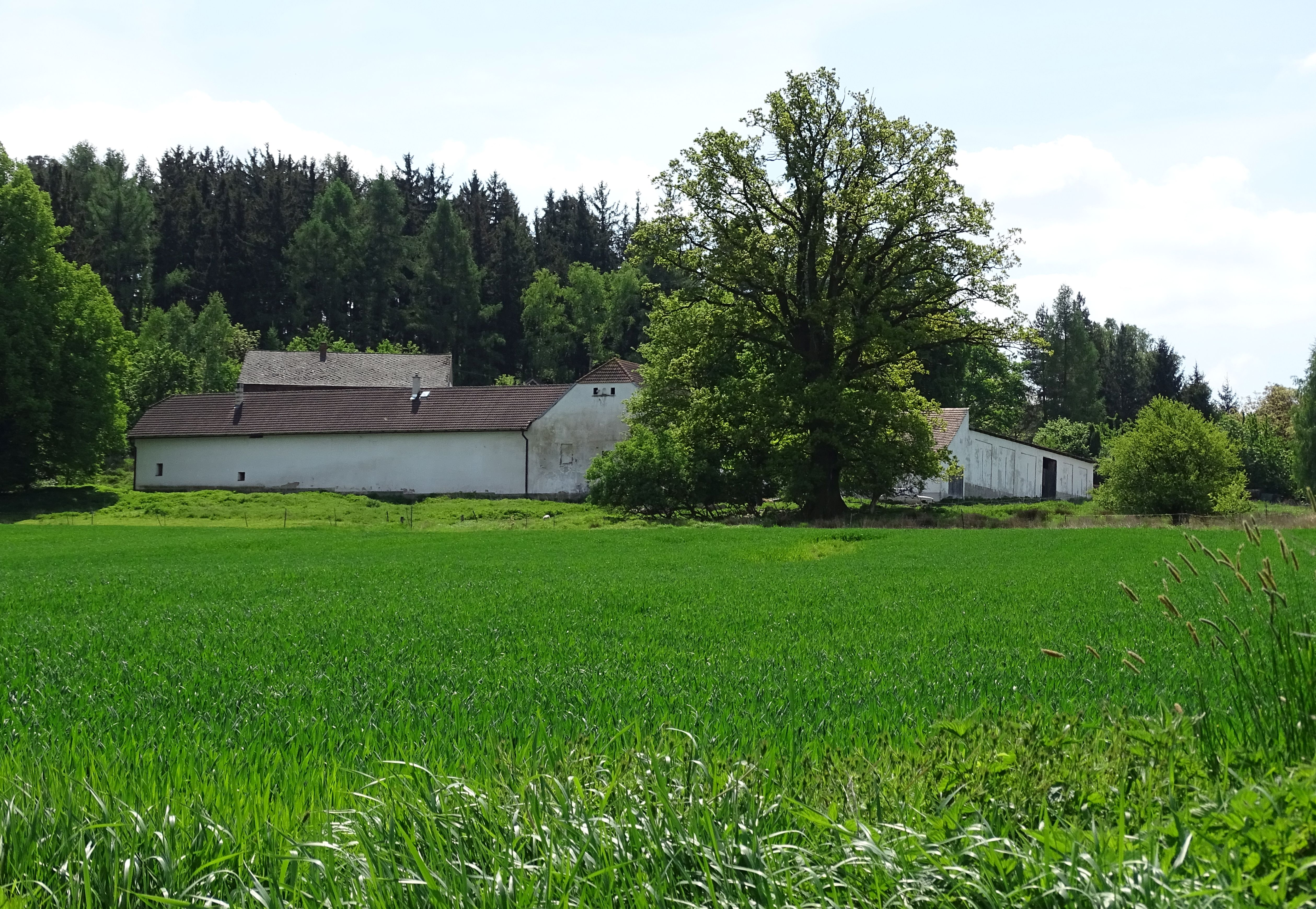 Neveklov-Hůrka Kapinos, Benešov District, Central Bohemian Region, Czech Republic. A tree by the house no. 1.